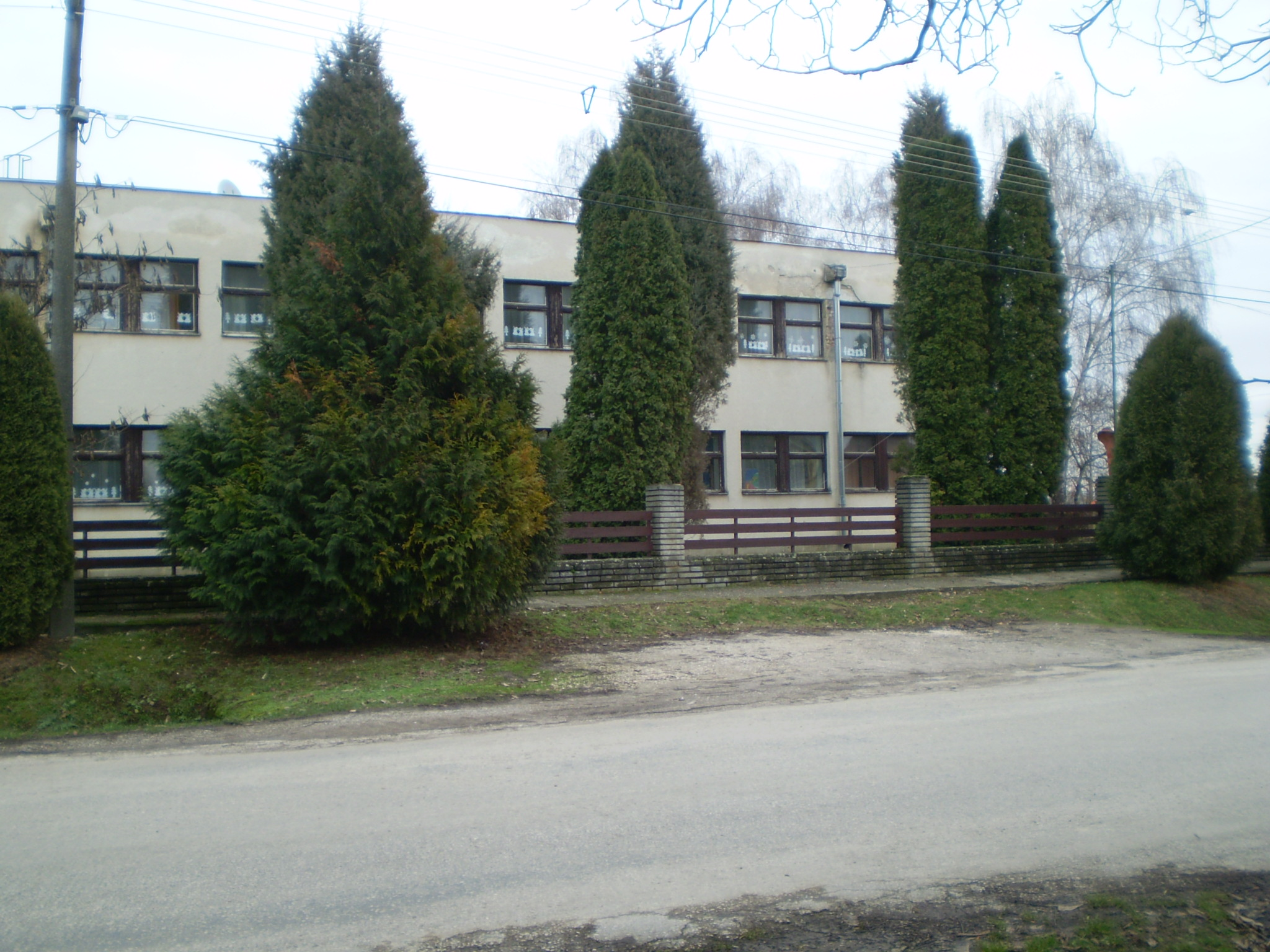 The school in Baksa, Hungary